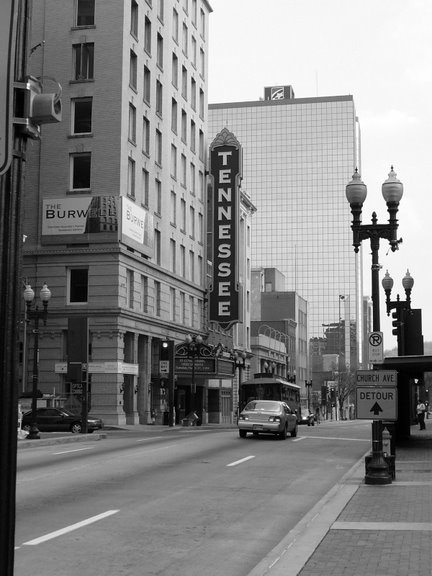 Tennessee Theatre, Knoxville TN